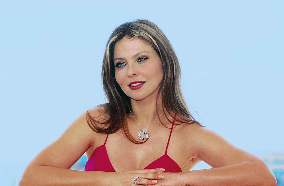 Muti Ornella at Cannes in 2000. My own picture. Created by Rita Molnár 2000.